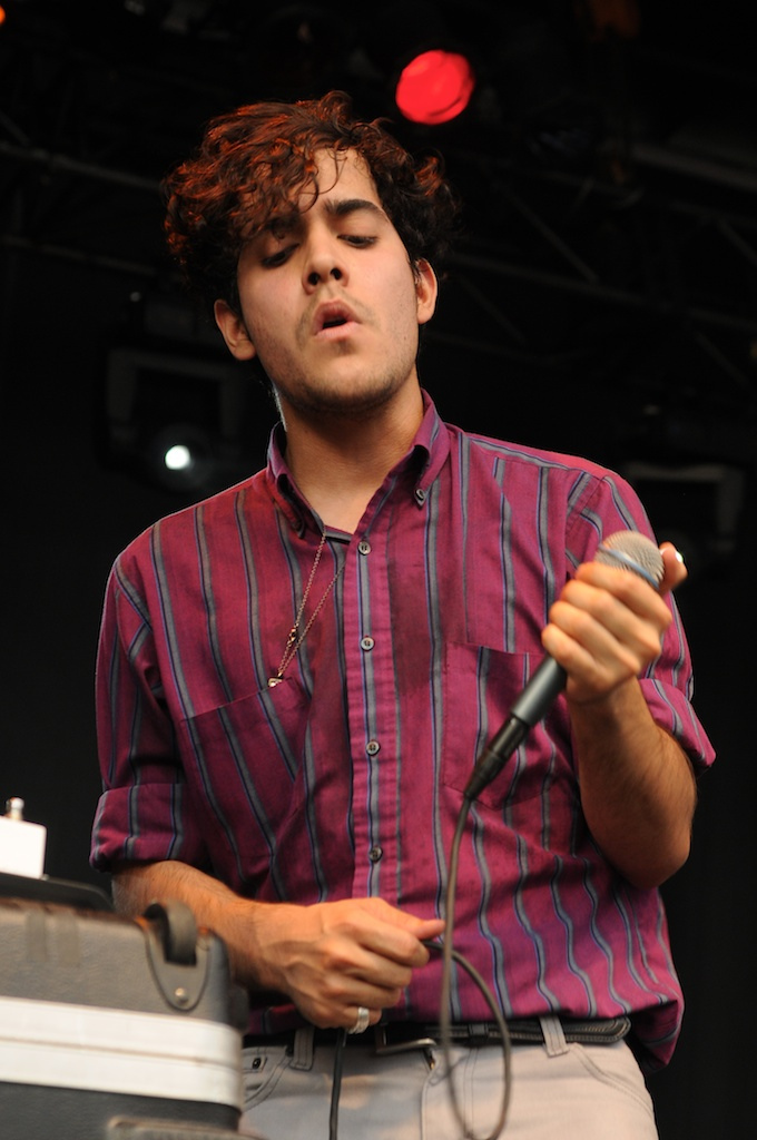 Neon Indian at the 2011 Cisco Ottawa Bluesfest. By: Brennan Schnell